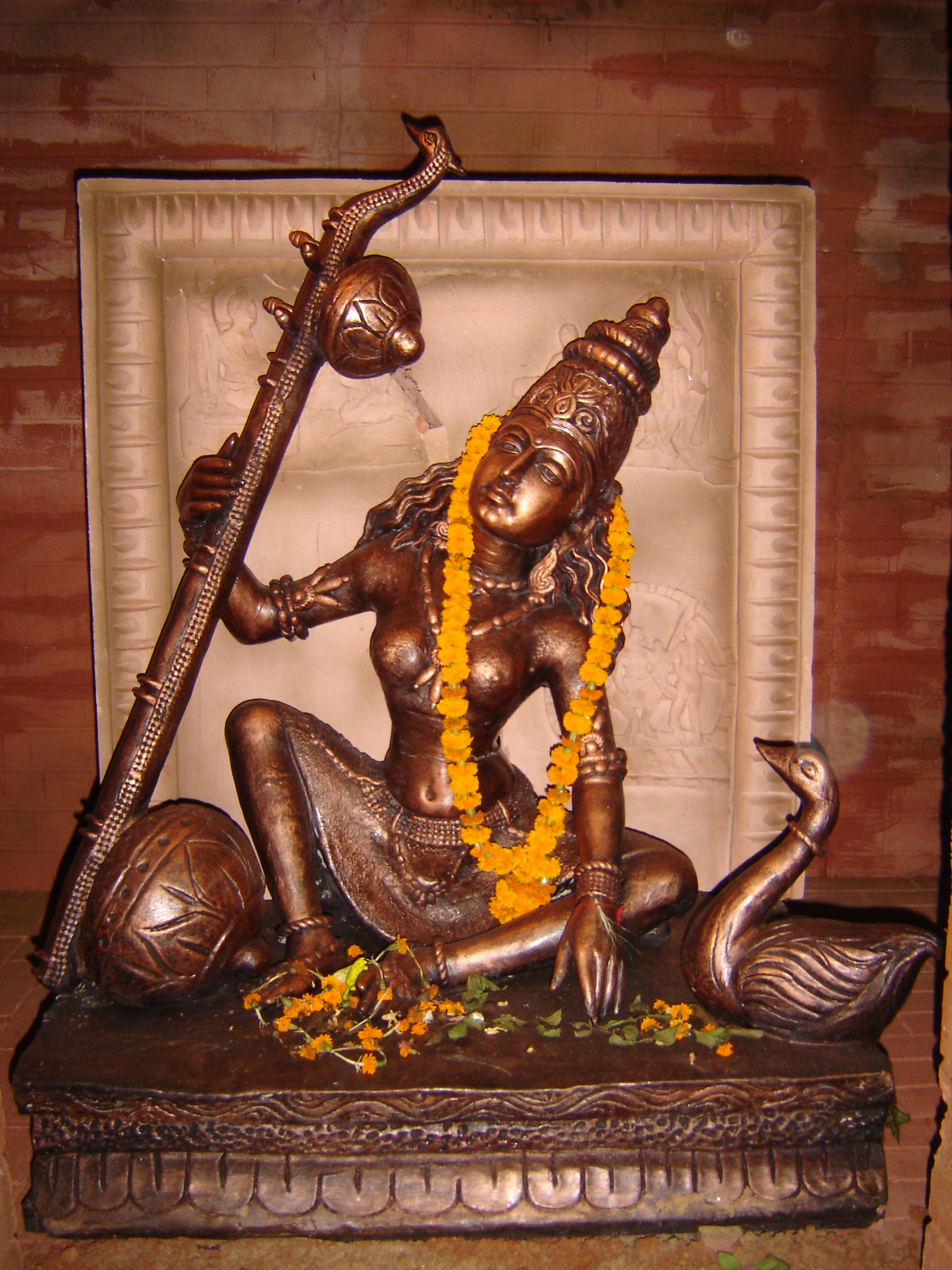 Durga Puja is one of the largest celebrated festivals in the whole world. These photographs have taken at Biswamilani club at Howrah.